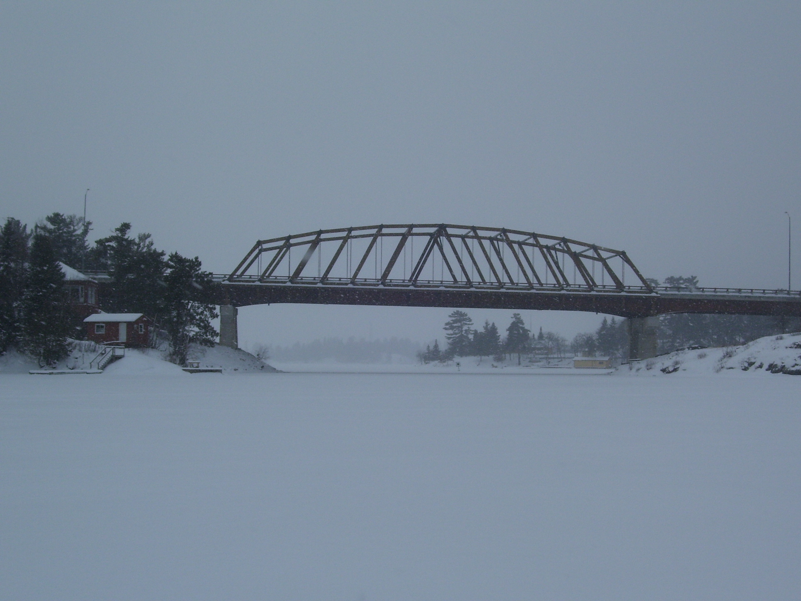 This is a photo of the new bridge located in Sioux Narrows Ontario Canada. Please replace this photo if you have a better picture.